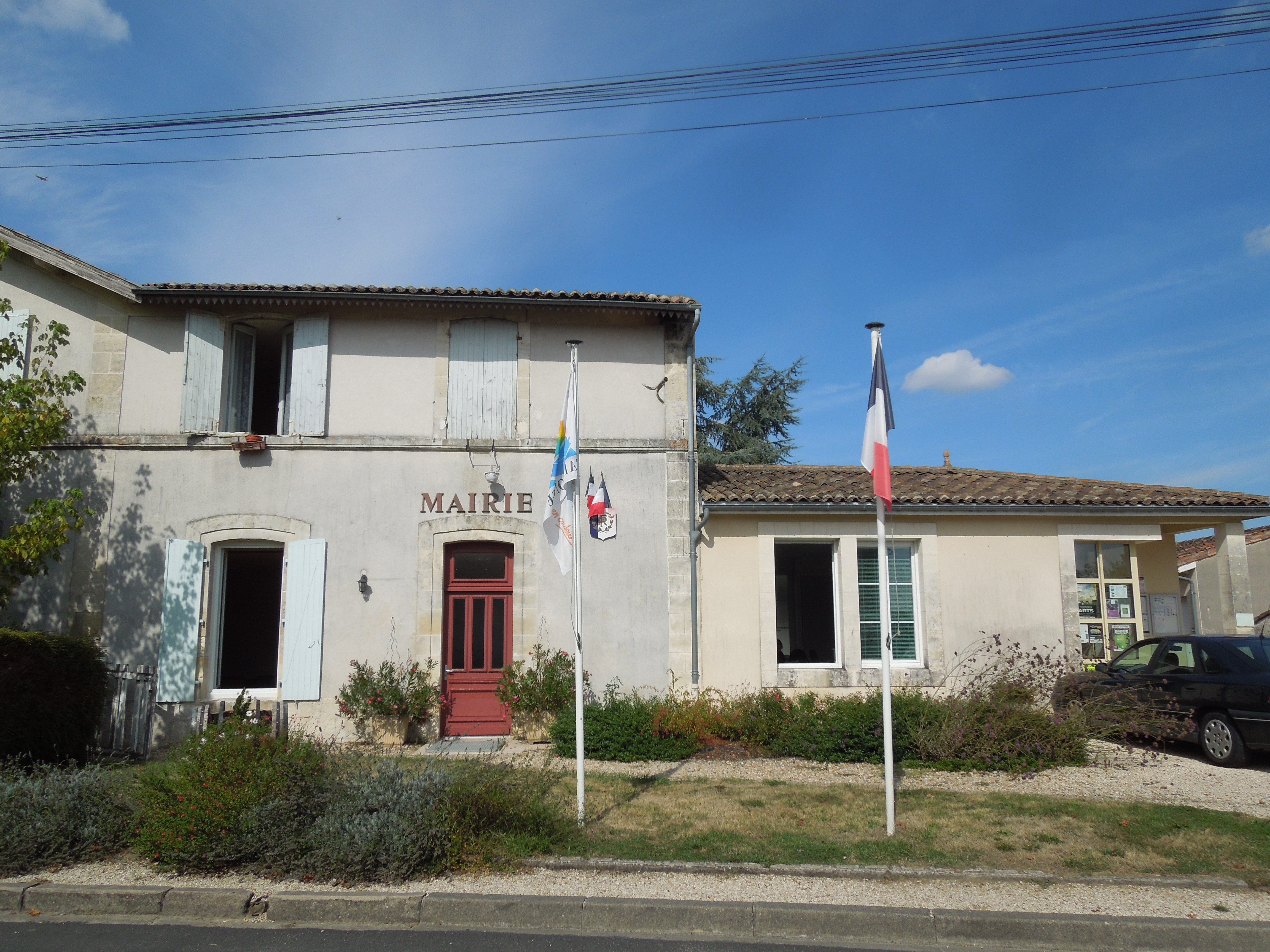 Saint-Simon-de-Bordes, the mairie